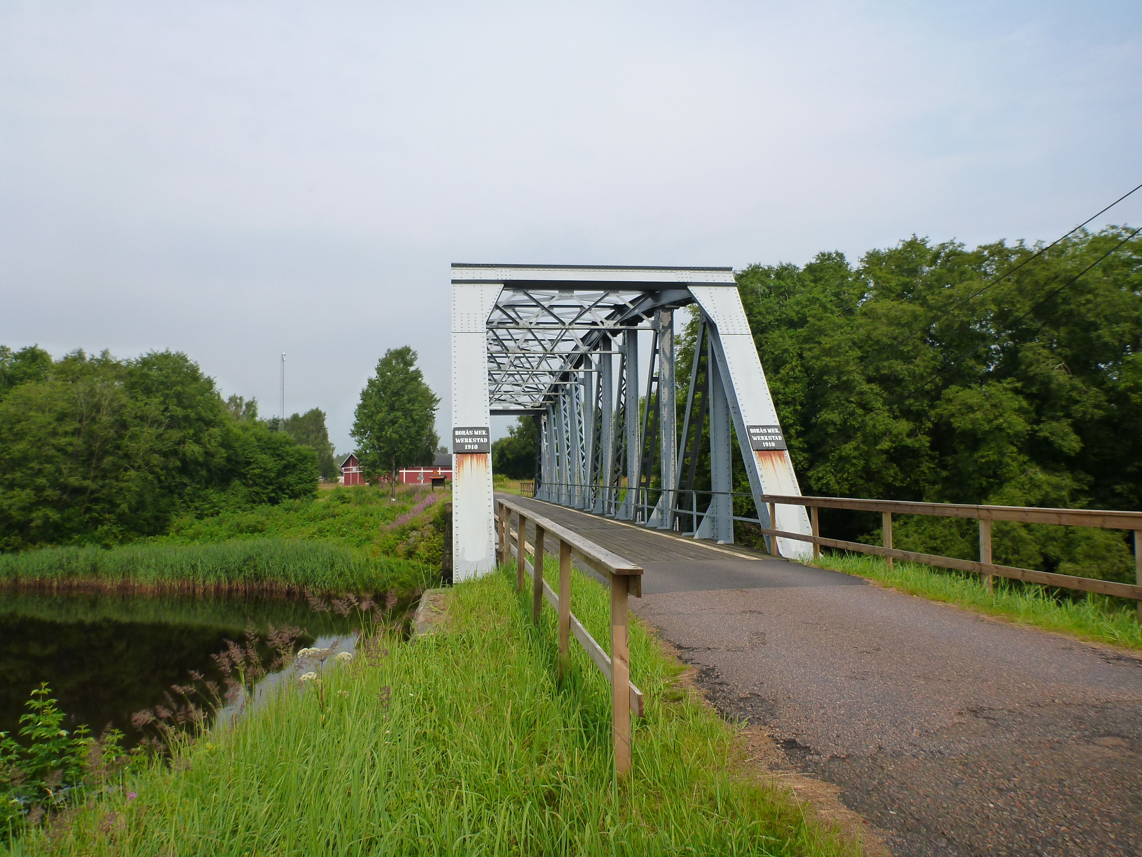 Former railroad bridge of the line Varberg–Ätran close to the city Ätran over river Ätran, build 1910 by Boras Mek. Werkstad